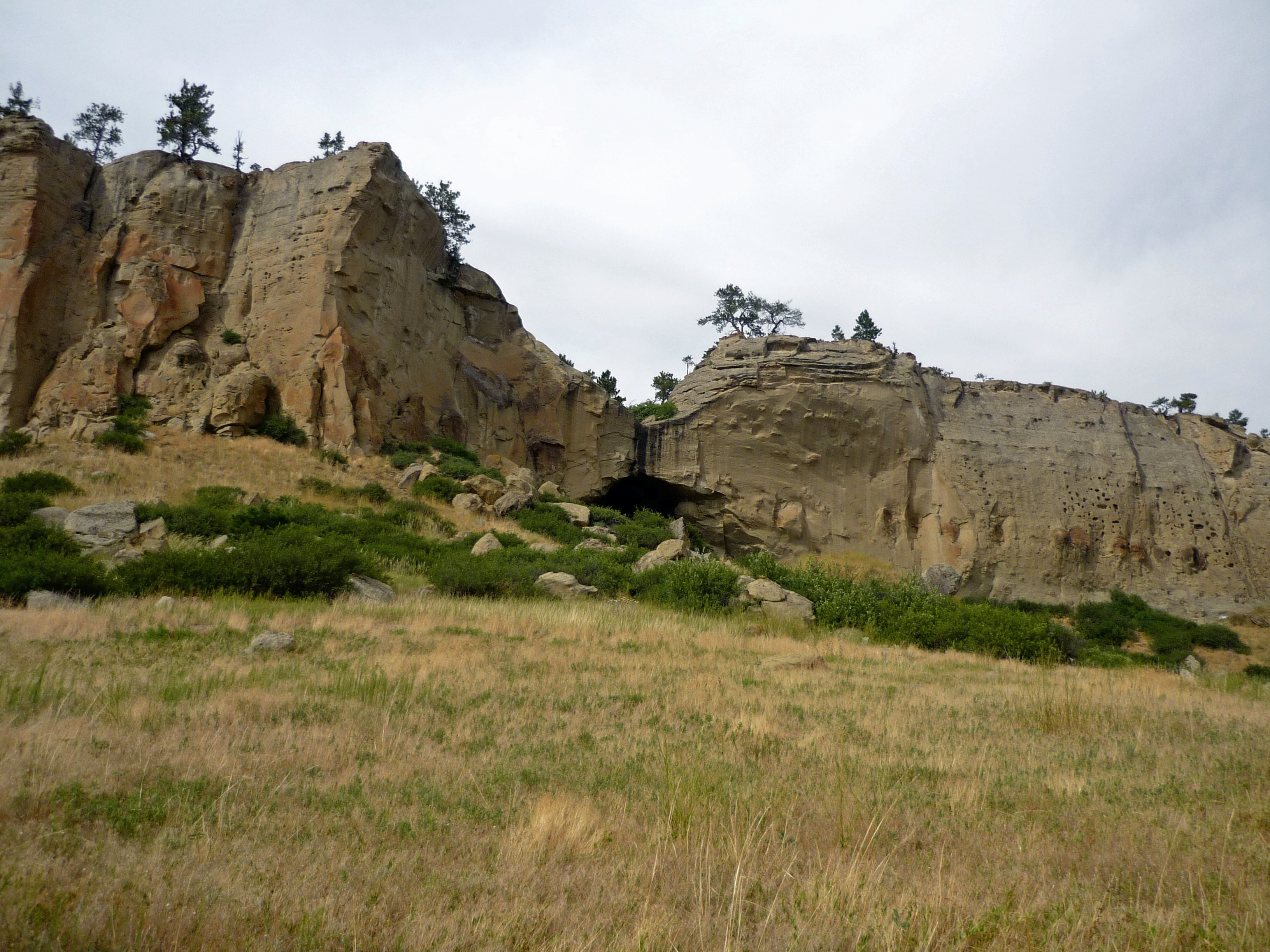 View of Ghost Cave in Pictograph State Park located outside Billings, Montana